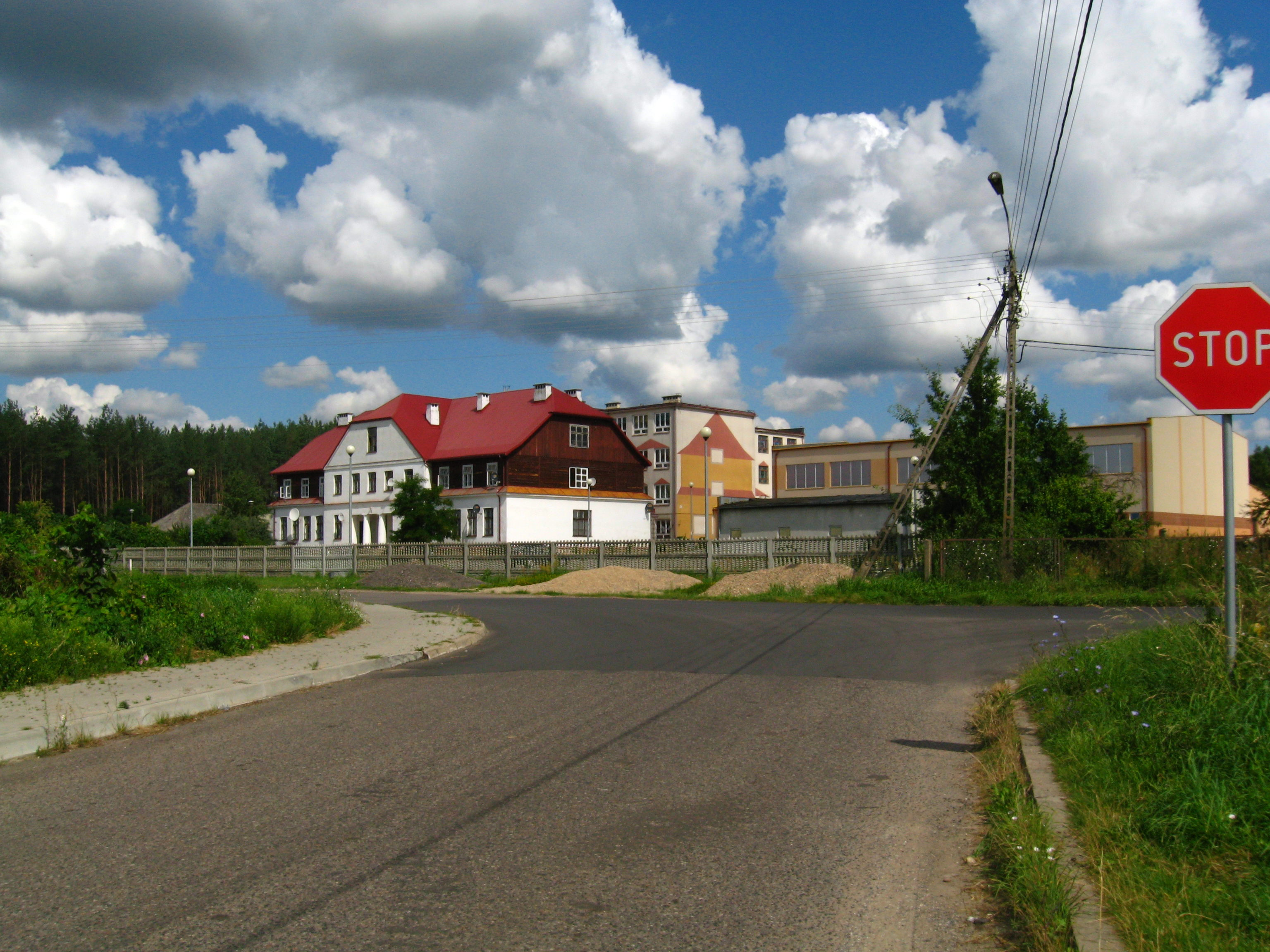 School at Dobrzyniewo Duże